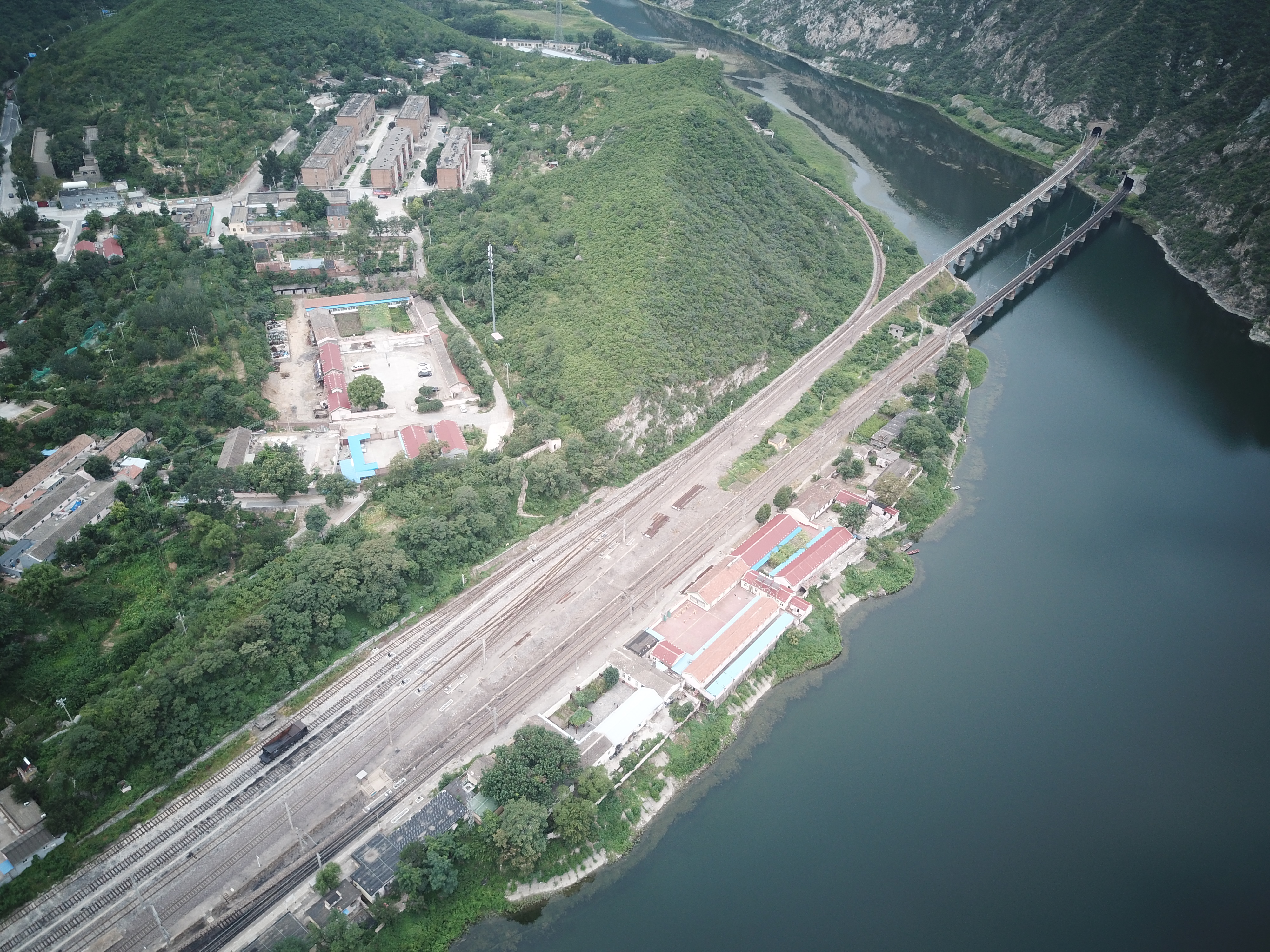 Luopoling Railway Station